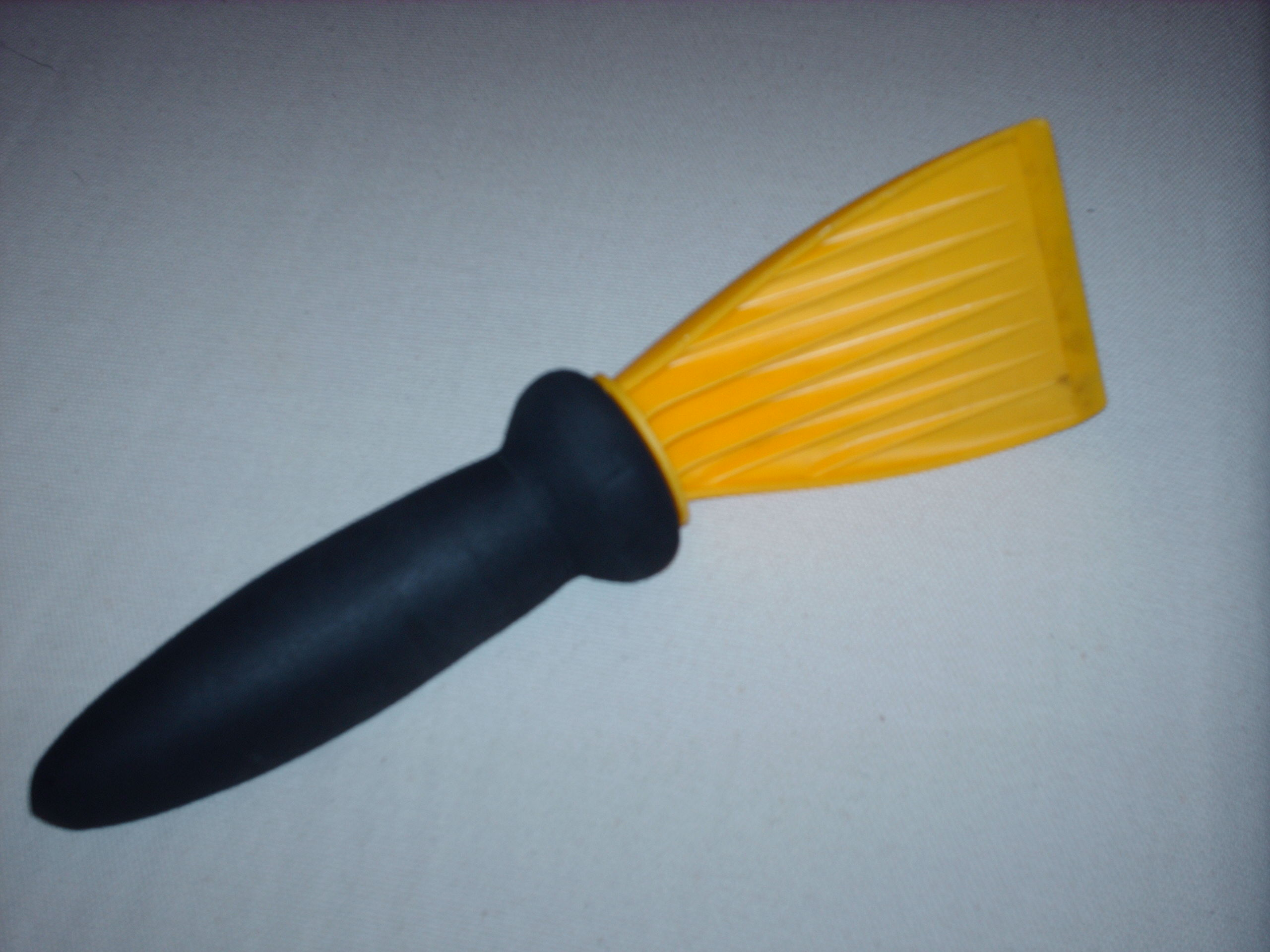 Ice scraper check usage